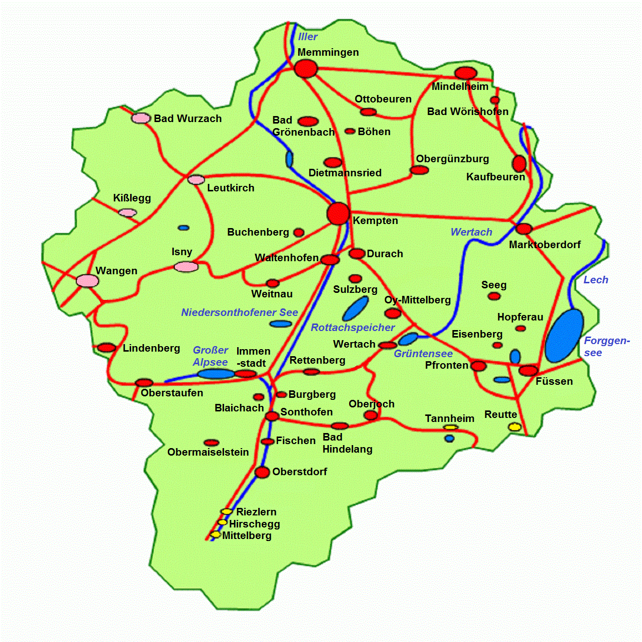 Map of the Allgäu. RED: Cities in Bavaria, YELLOW: Cities in Austria, PINK: Cities in Baden-Württemberg